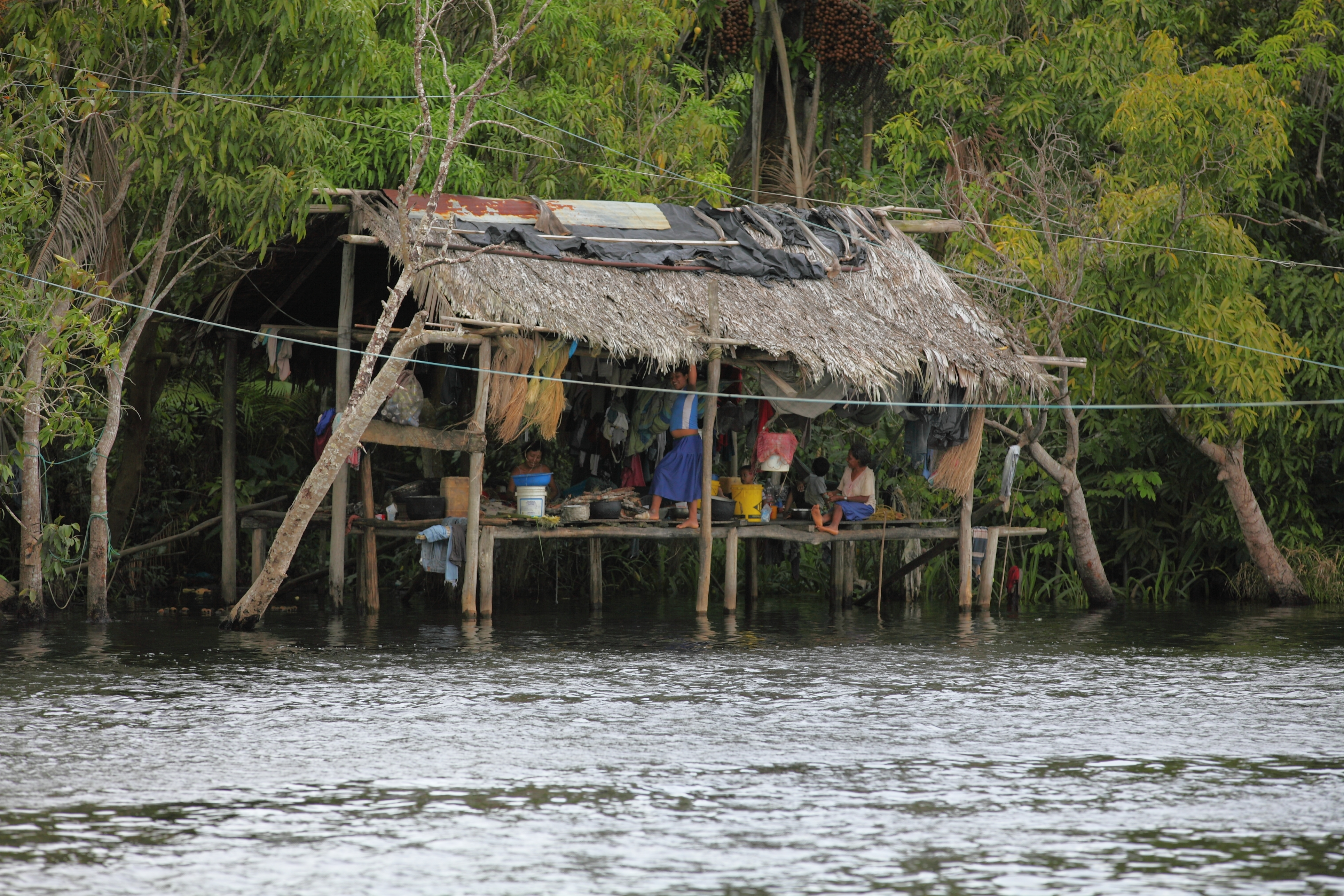 Warao Indigenous Community settlement on the banks of the Morichal Largo river, Monagas.